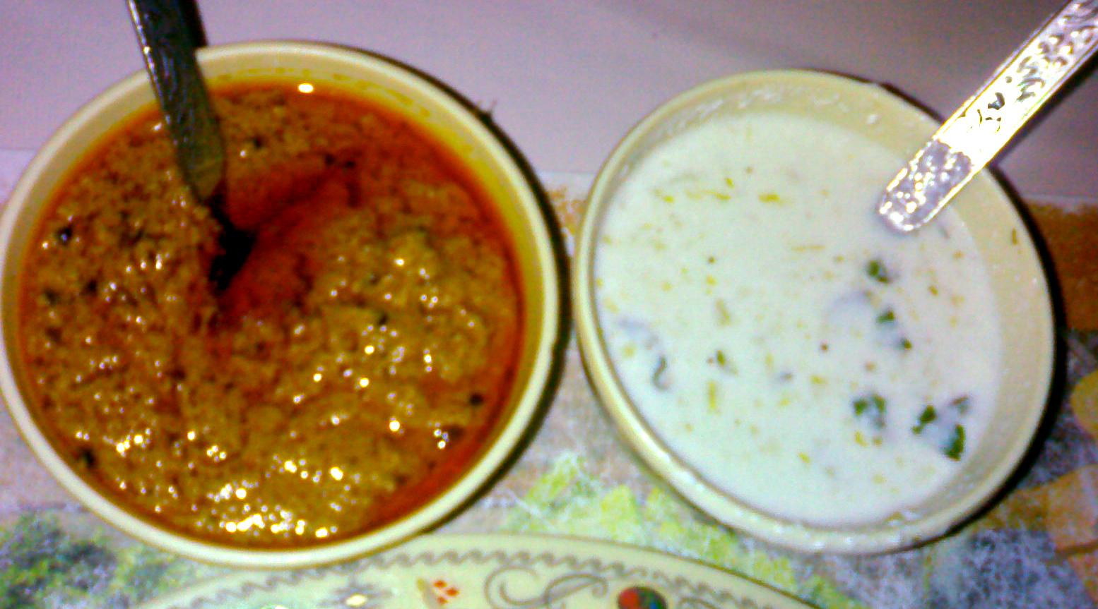 A picture of Hyderbadi Biryani Accompaniments.